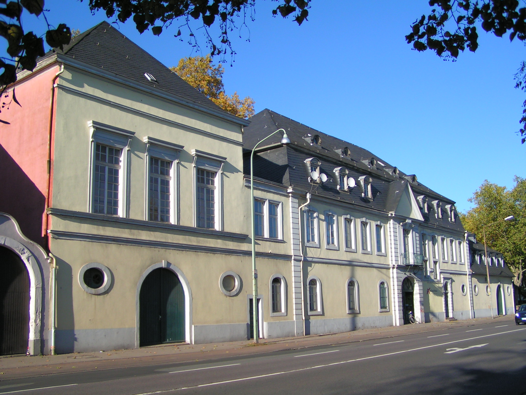 Exzellenzhaus, Trier, Germany